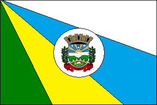 Áurea's flag.